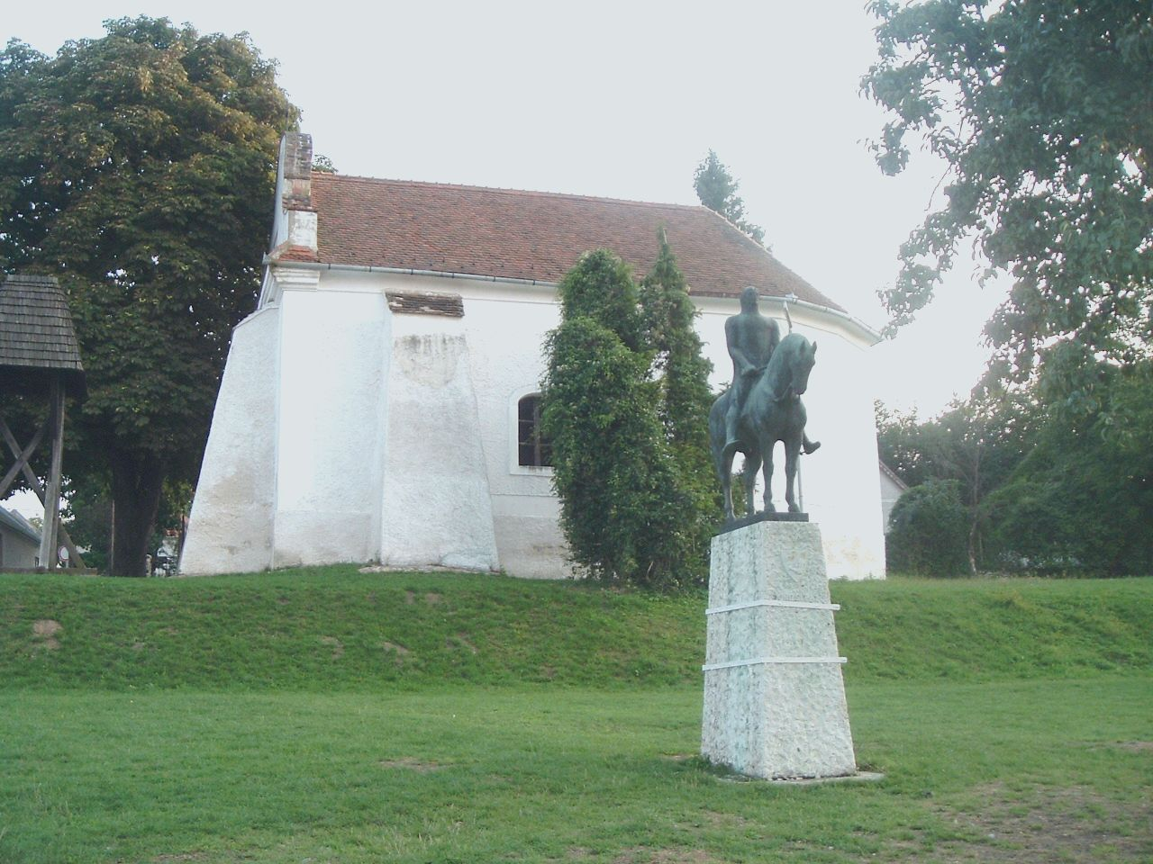 Kinizsi statue with the lutheran church